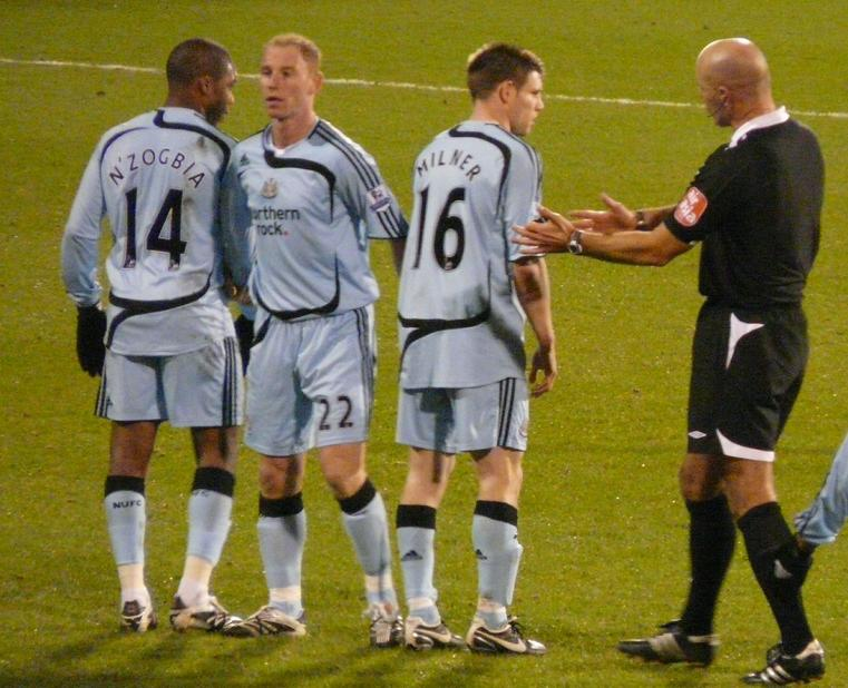 football (soccer) players Charles N'Zogbia, Nicky Butt, James Milner and referee Howard Webb line up a wall in a football match.